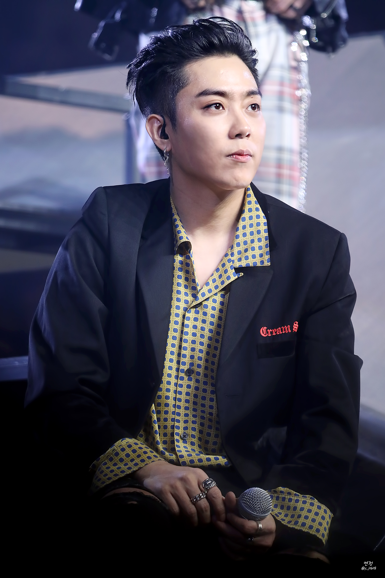 170122 Eun Ji Won at SECHSKIES YELLOW NOTE FINAL IN SEOUL